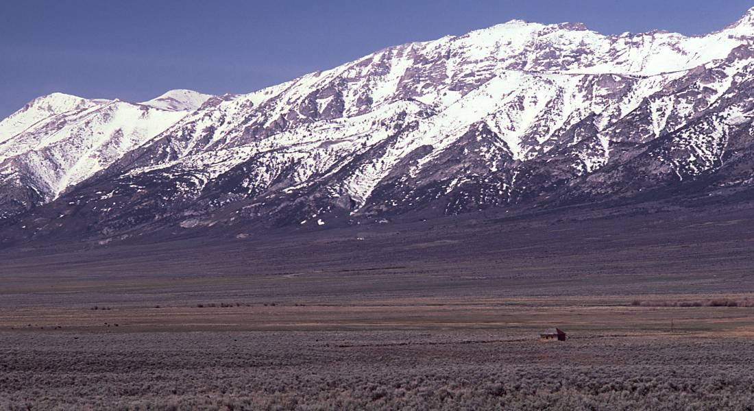 Ruby Valley in northeast Nevada, looking southwest from a point near Secret Pass. In the distance is the eastern escarpment of the Ruby Mountains.